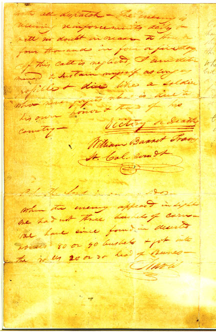 This is a scan of the second page of the letter "To the People of Texas & All Americans in the World", written by William Barret Travis during the battle of the Alamo. Travis was killed at the Alamo on March 2, 1836.